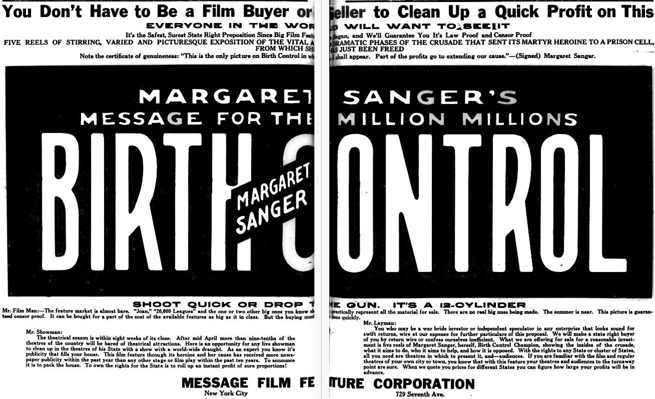 Two page advertisement for Margaret Sanger's American documentary film Birth Control (1917), on pages 26 and 27 of the March 30, 1917 Variety.